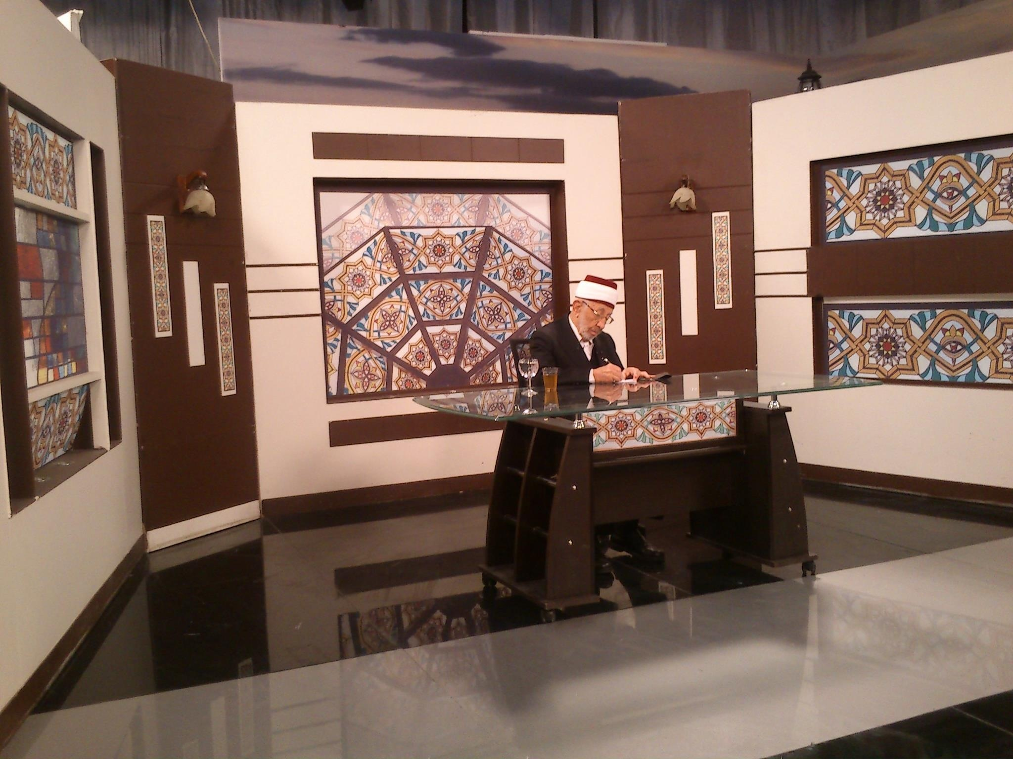 Dr. Mohammad al-bouti